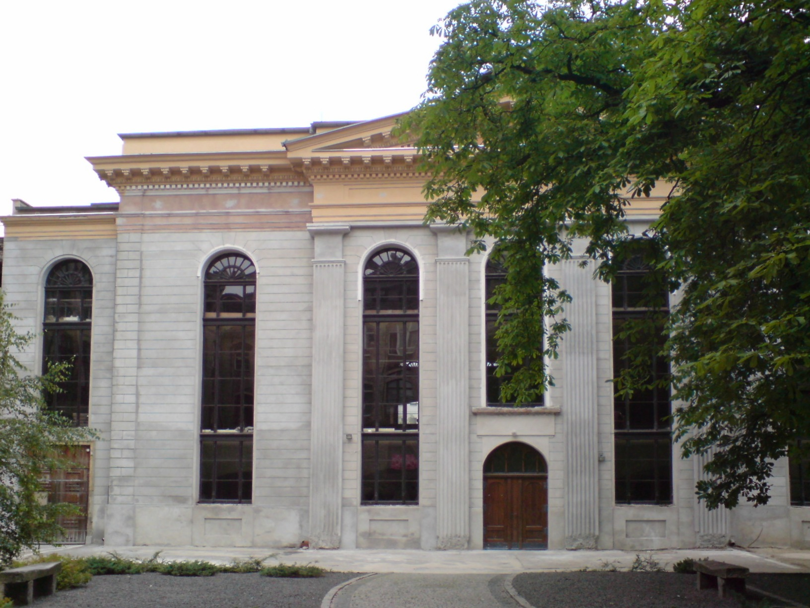 White Stork Synagogue in Wrocław, front view (from Włodkowica street side), 2007